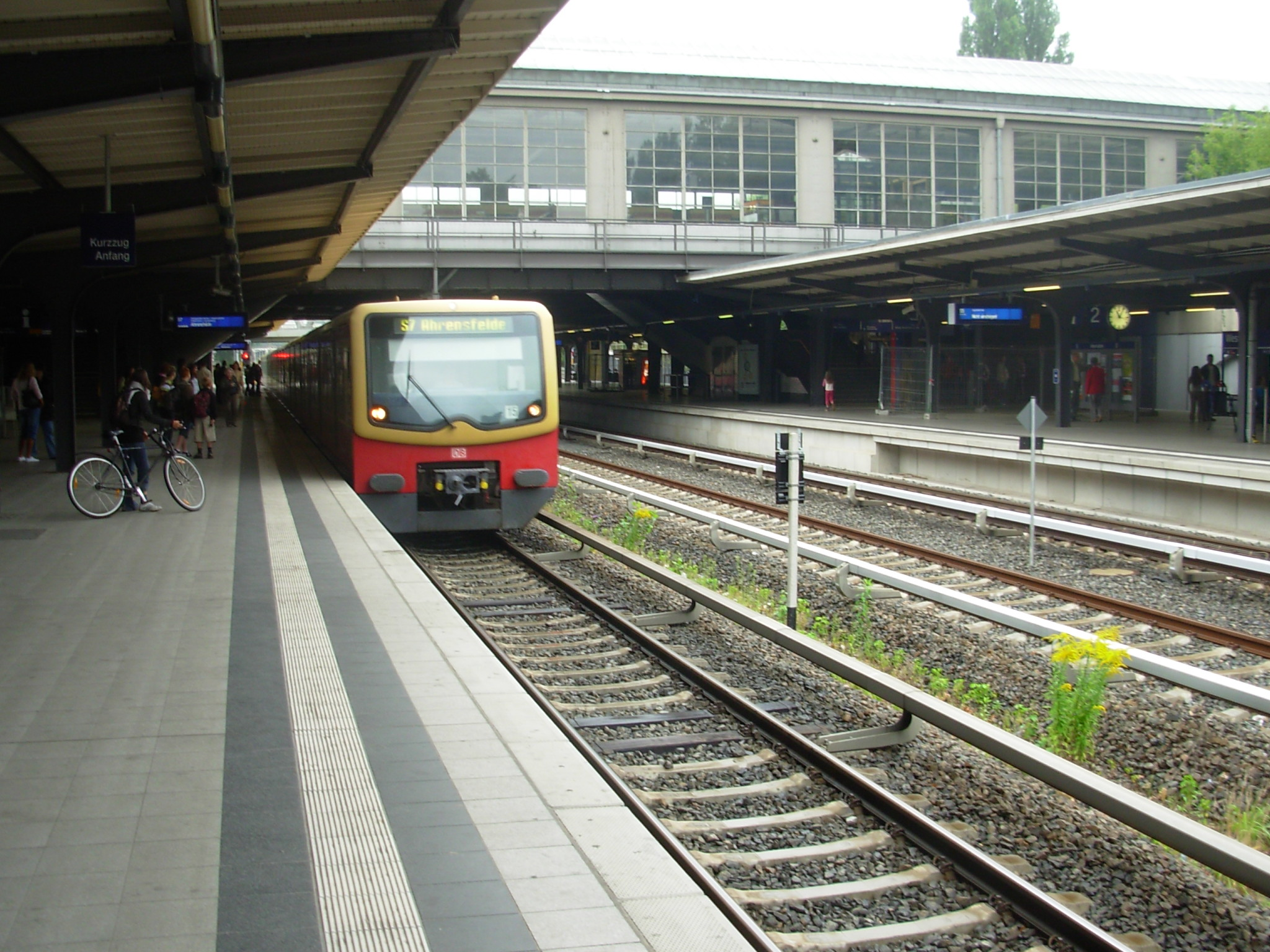 Eastbound Berlin S7 line train en route for Ahrensfelde entering the lower level of Westkreuz station.